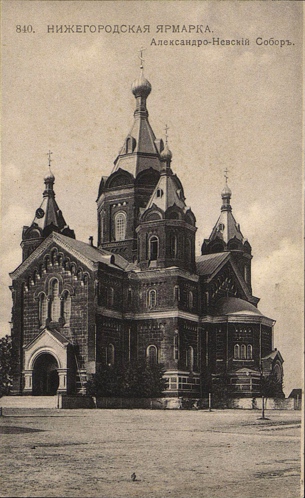 Alexander Nevsky Cathedral on Nizhny Novgorod's Strelka (the confluence point of the Oka and the Volga)